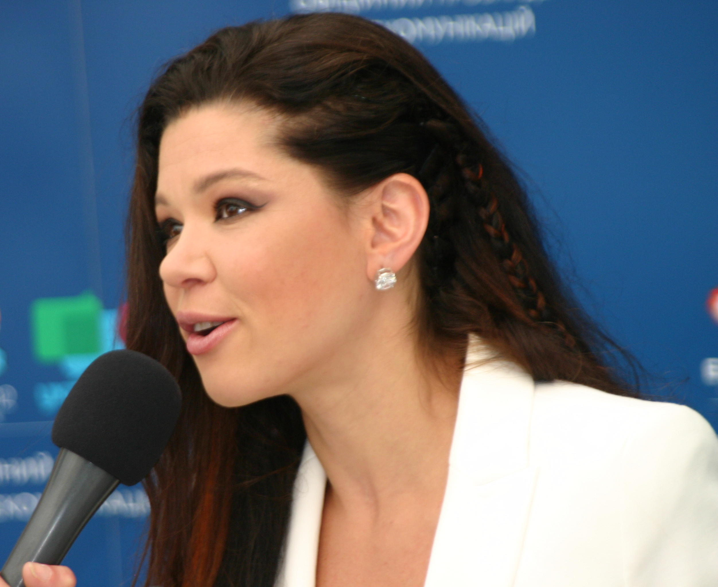 Ruslana at the press conference prior to her concert in Kiev, 19th May 2012